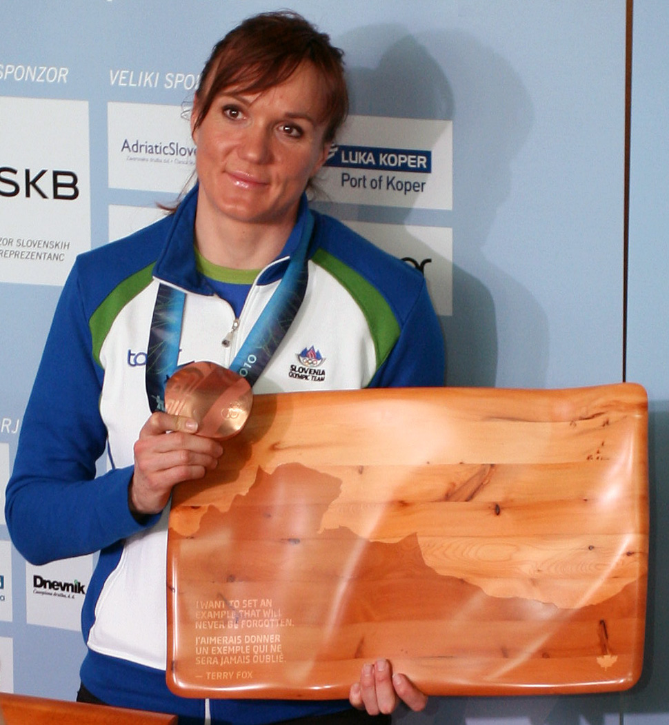 Petra Majdič after 2010 Winter Olympics. She holds the Terry Fox Award: a nickel and a wooden tray with the words by the humanitarian and sportsman Terry Fox (1980): "I want to set an example that will never be forgotten. —Terry Fox", written on the tray in English and French.